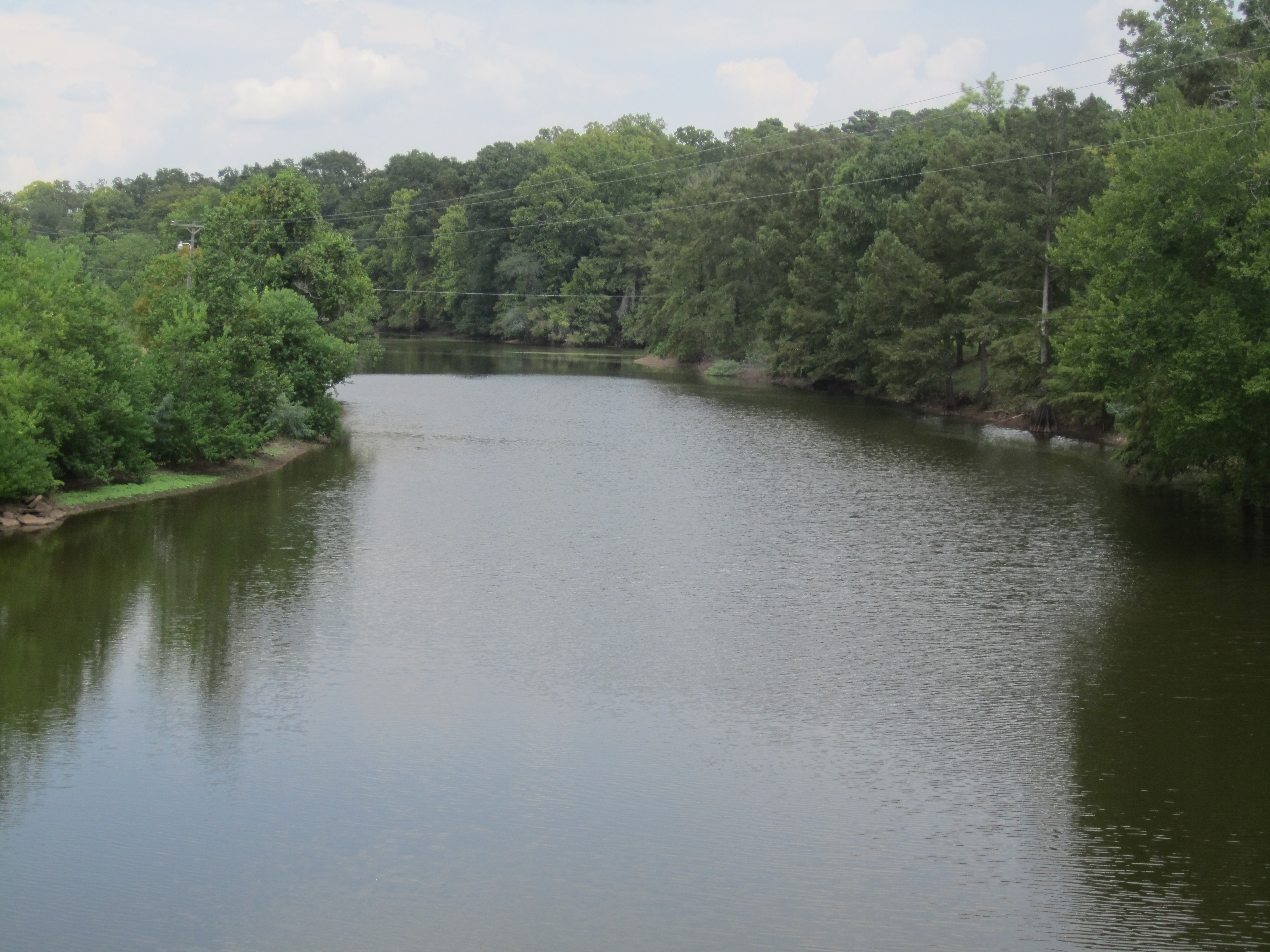 I took photo of Bayou Boeuf with Canon camera in Lecompte, LA.